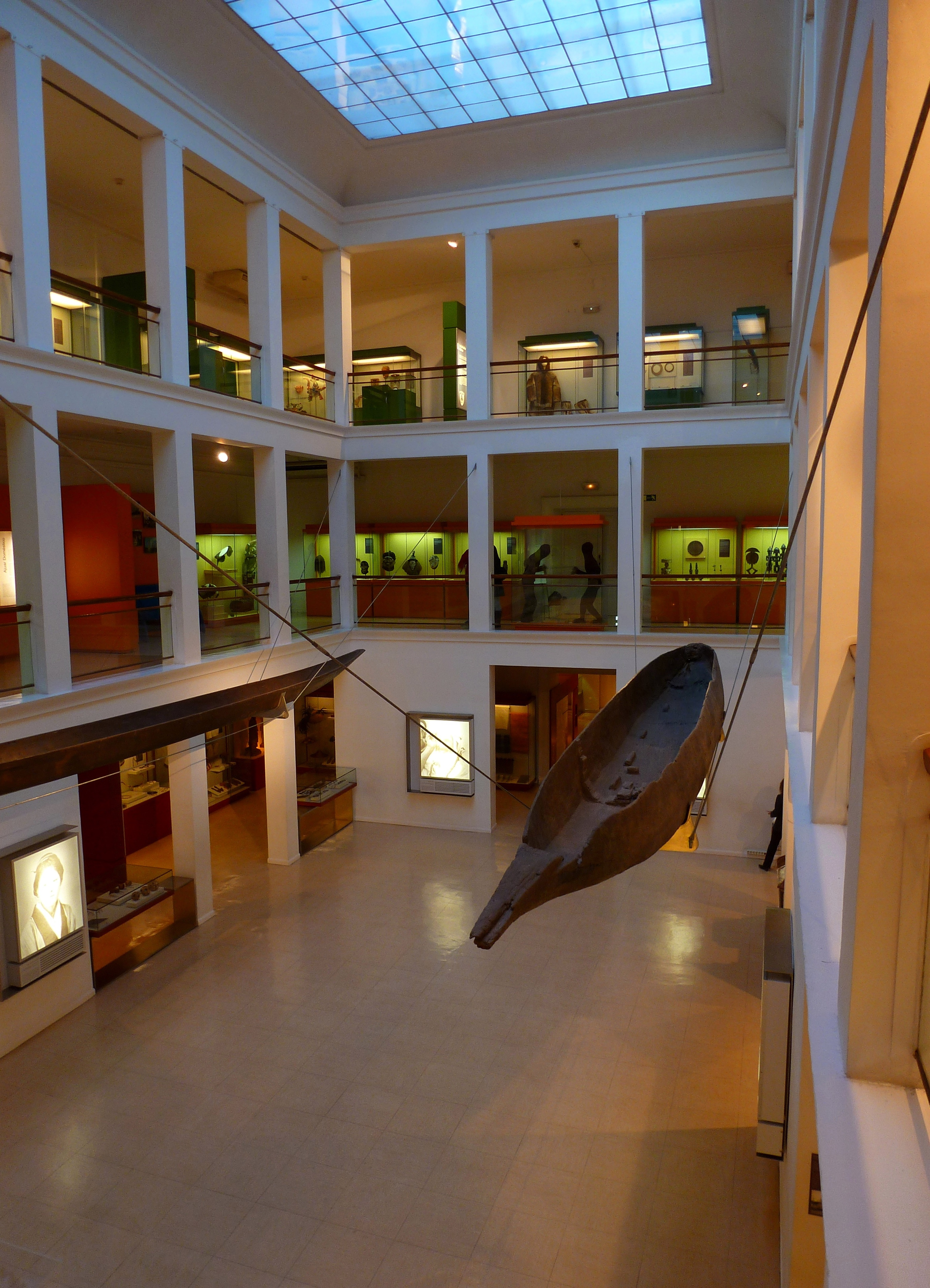 Central room of the Museo Nacional de Antropología (National Museum of Anthropology), Madrid, SpainTürkçe: Ulusal Antropoloji Müzesi'nin merkezi salonu, Madrid, İspanya